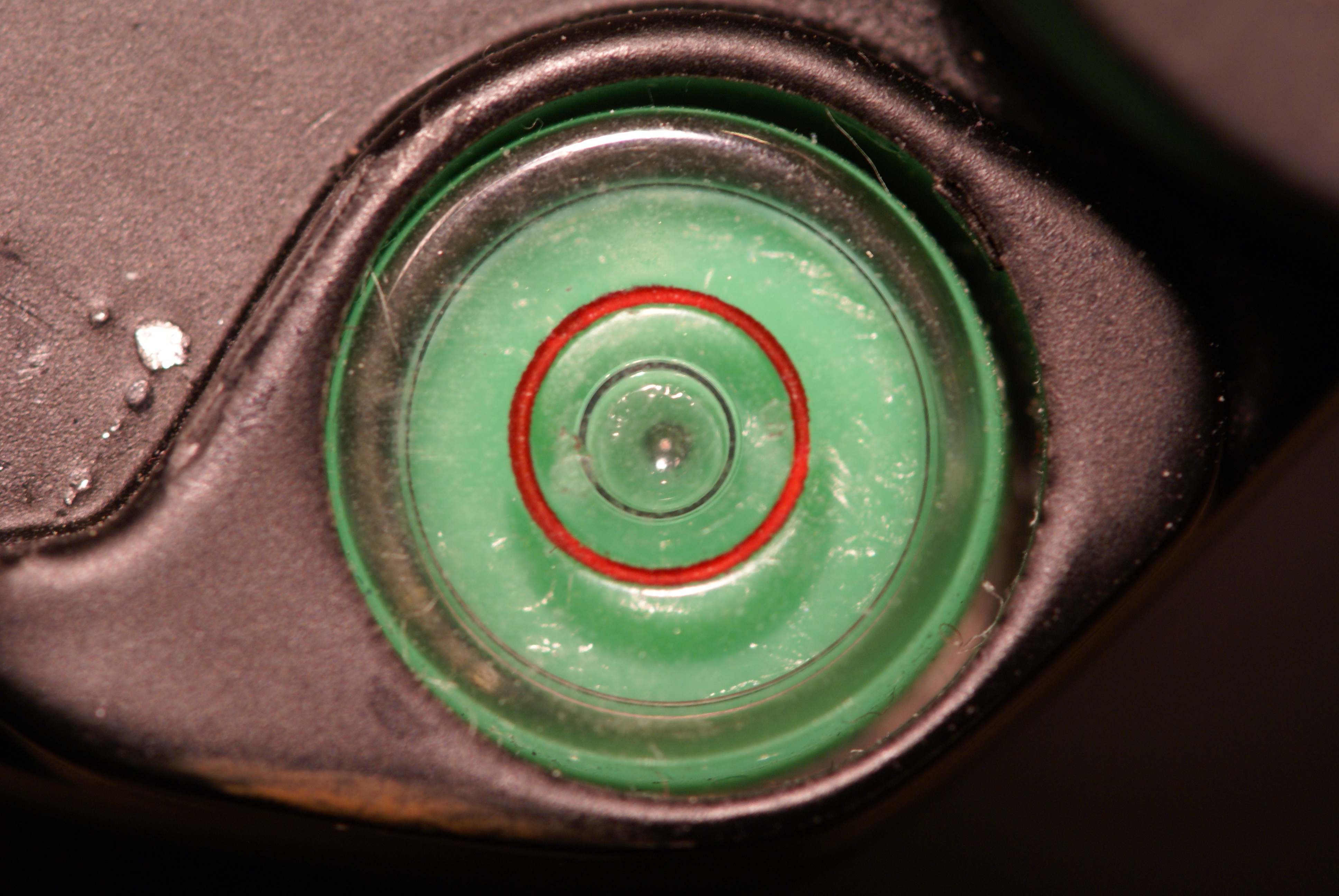 A bull's eye level with green backdrop, with the centered bubble showing a level position.